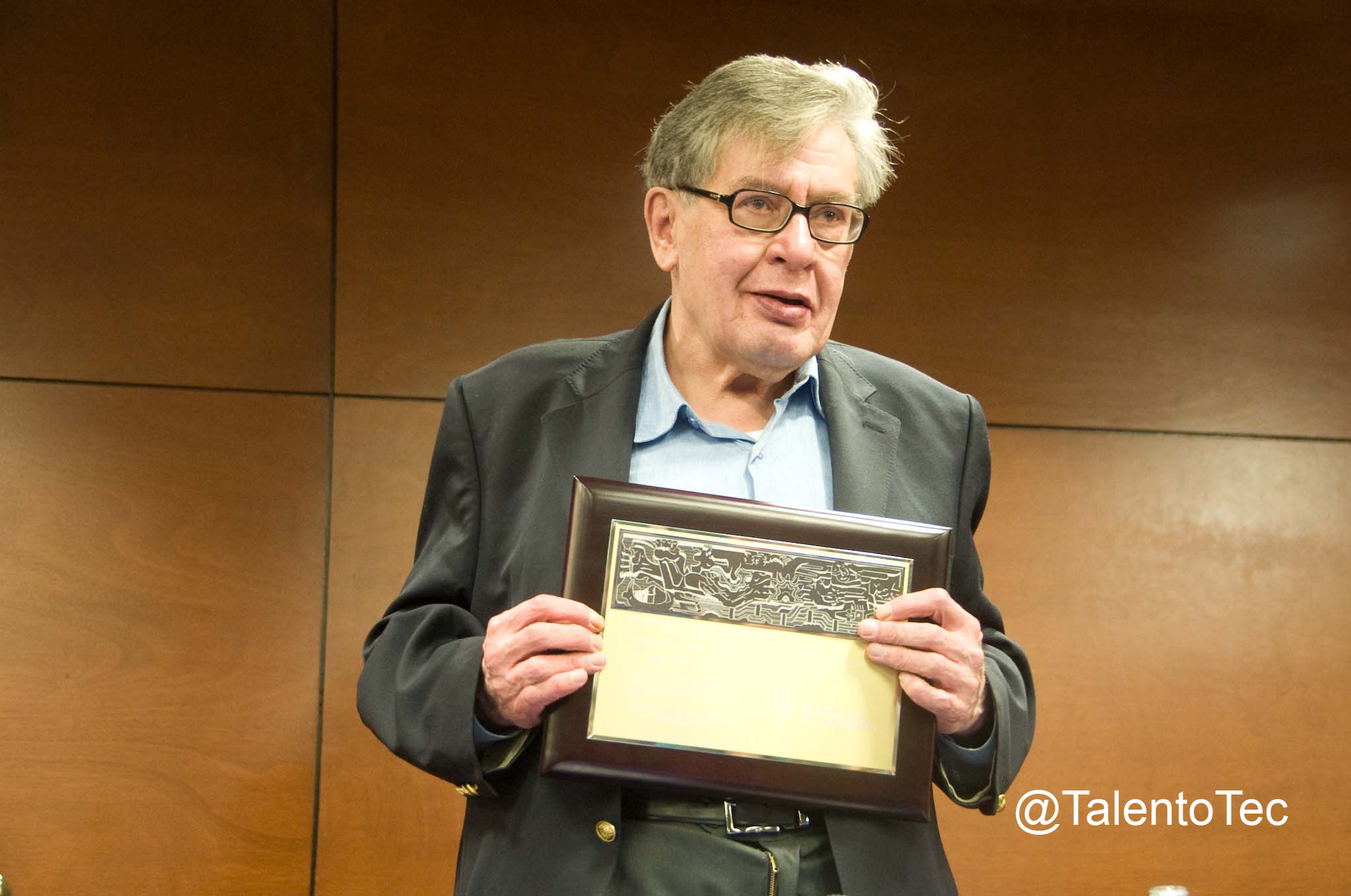 José Emilio Pacheco at ITESM CCM